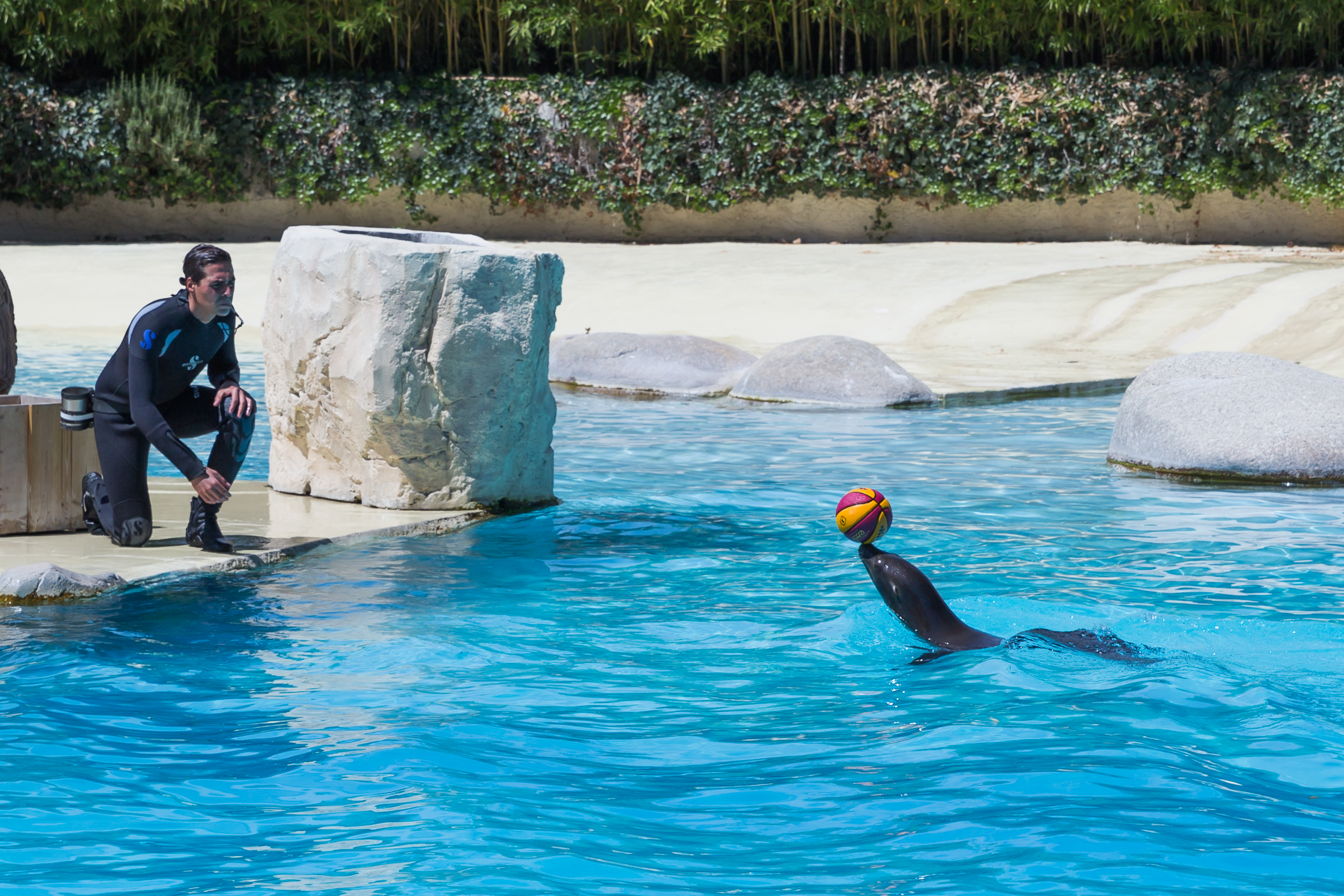 Zalophus californianus (California sea lion)the sea lion show in the ZooParc de Beauval in Saint-Aignan-sur-Cher, France.